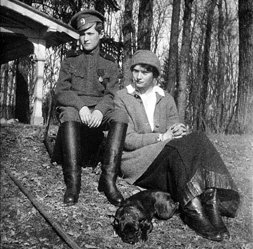 Alexei, Tatiana and her French Bulldog Ortino in the park at Tsarskoe Selo during captivity.